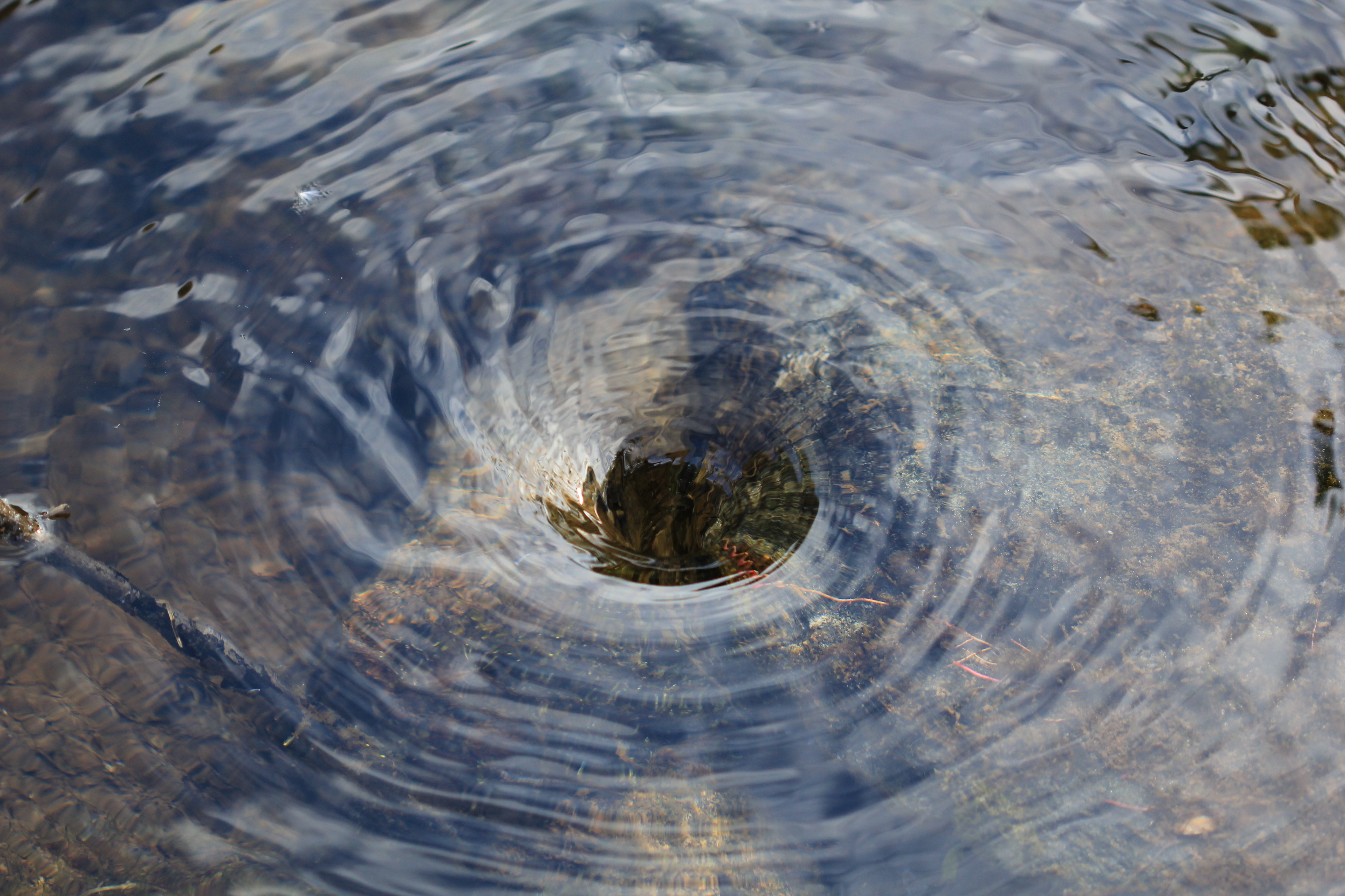 A small whirlpool in a pond